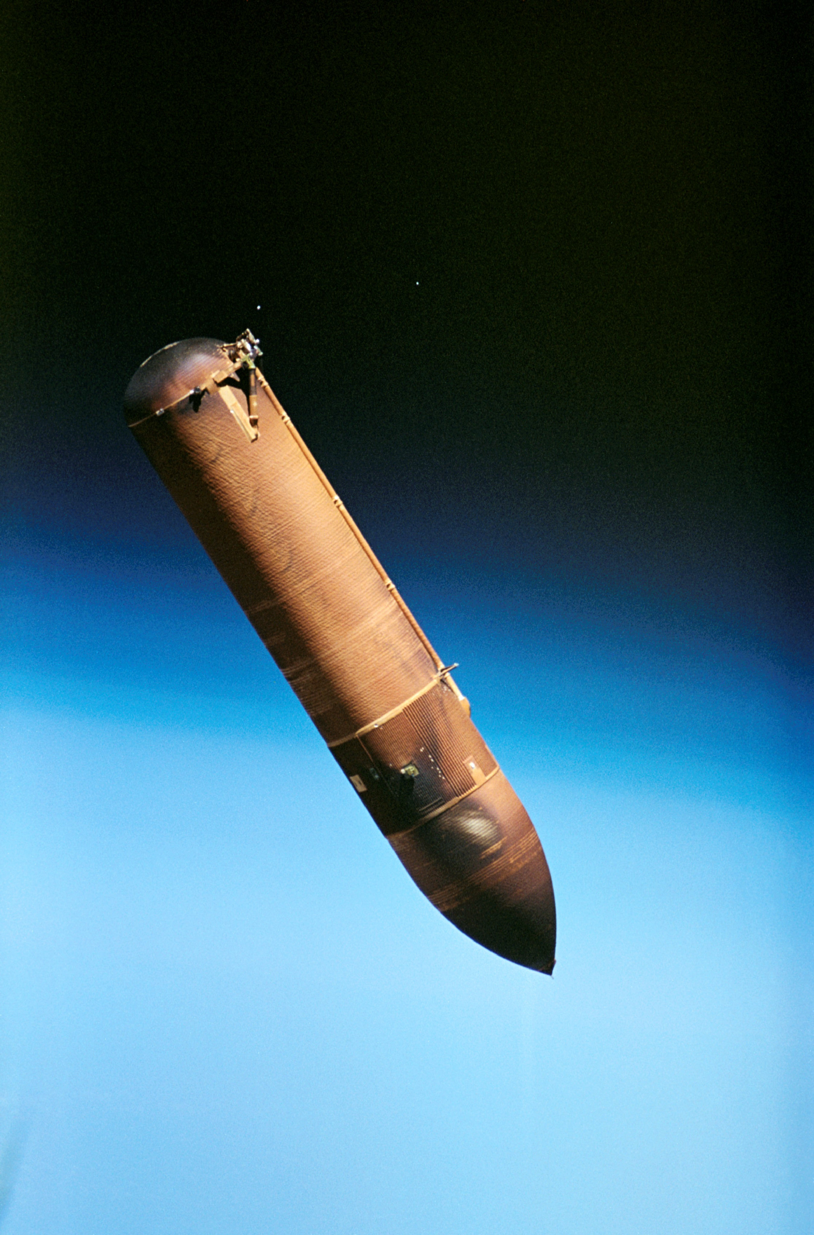 During the STS-57 launch sequence and orbital insertion, the external tank falls toward the Earth after being jettisoned from Endeavour. Visible on the tank are the forward and aft attachment hardware and supports and the propellant feed line. The light blue atmosphere of the Earth and the blackness of space create the backdrop.